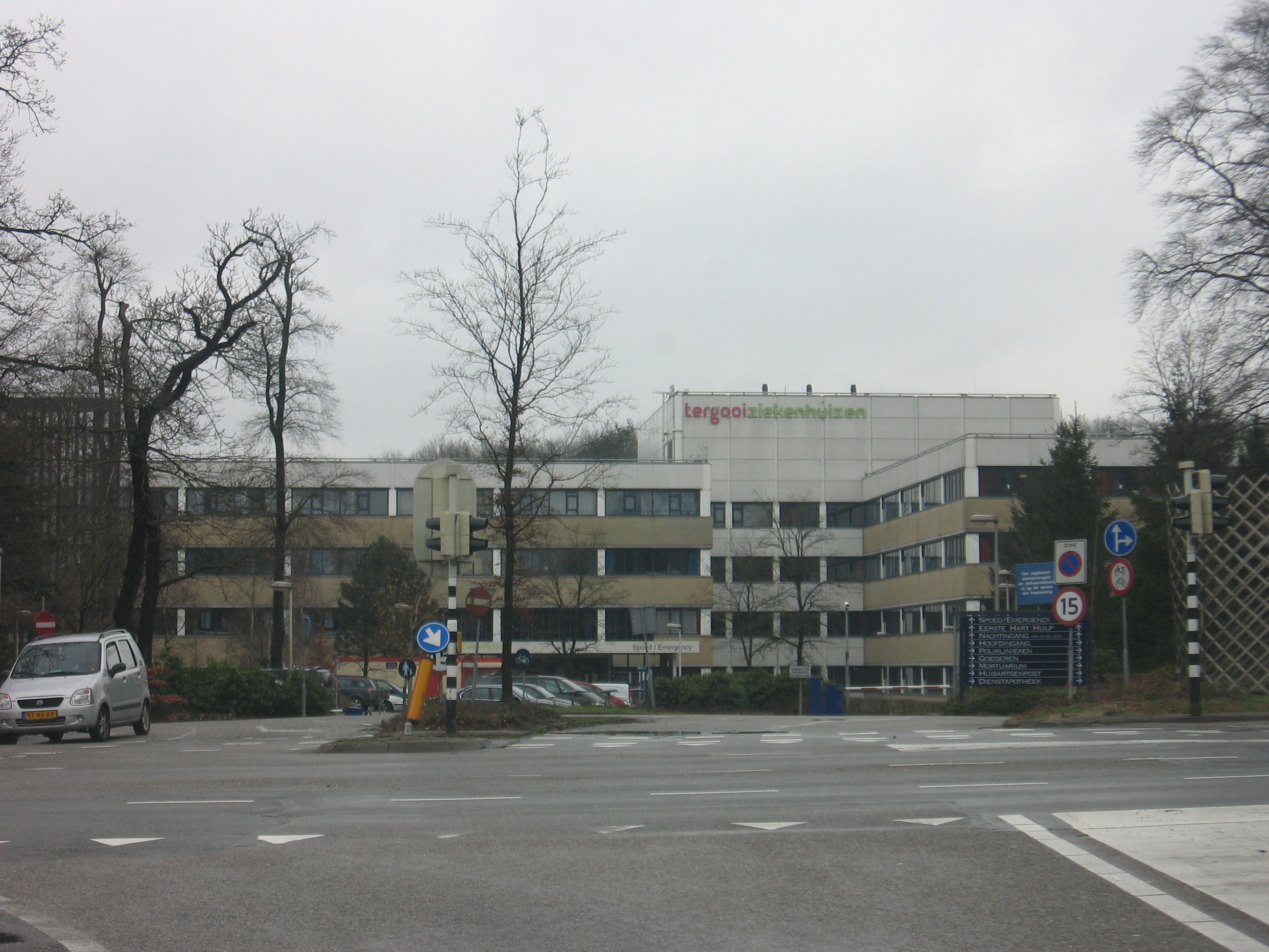 Tergooiziekenhuizen